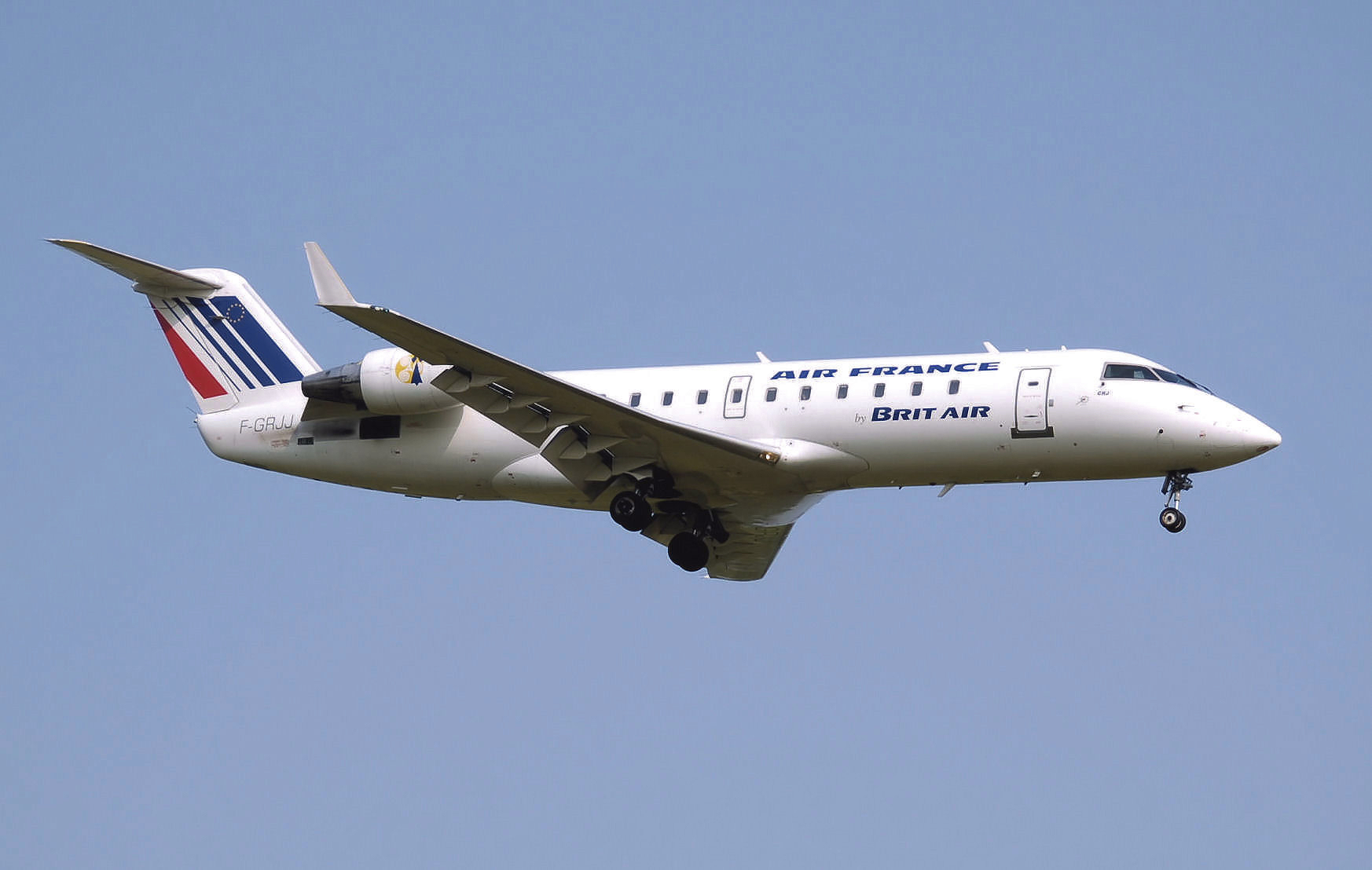 Brit Air Canadair CL-600-2B19 (=CRJ-100ER) (F-GRJJ) landing at London Gatwick Airport, England.